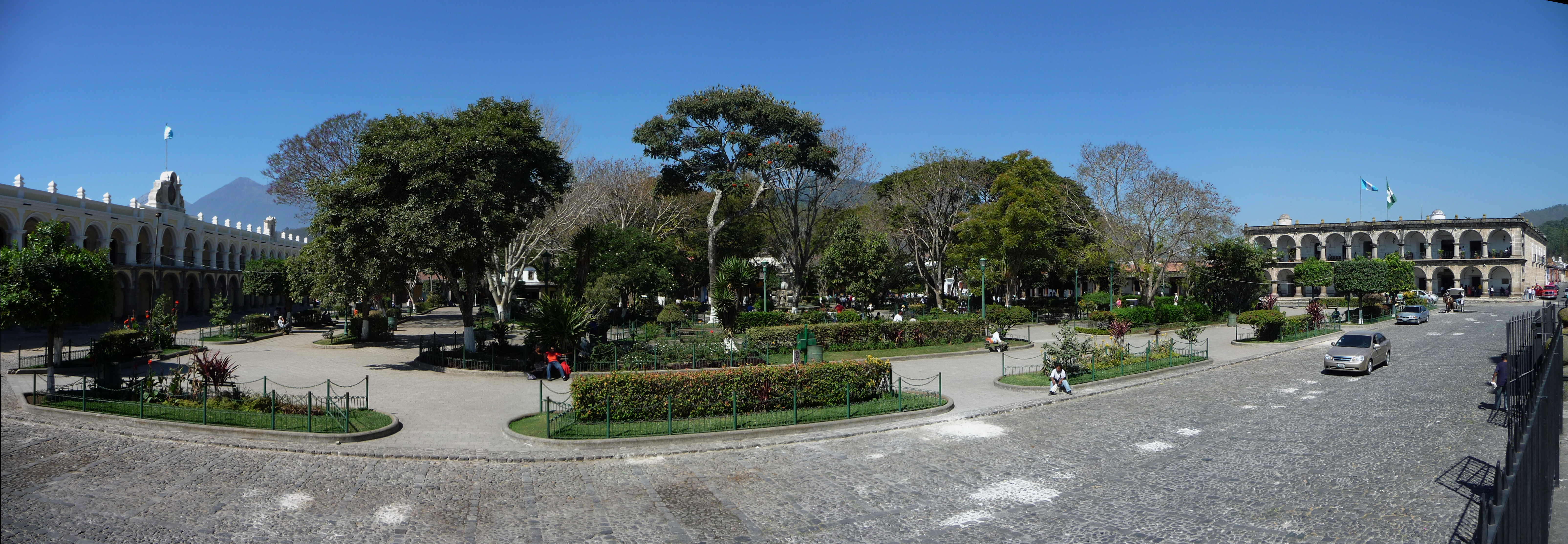 The Central Plaza of Antigua (Sacatepéquez, Guatemala).